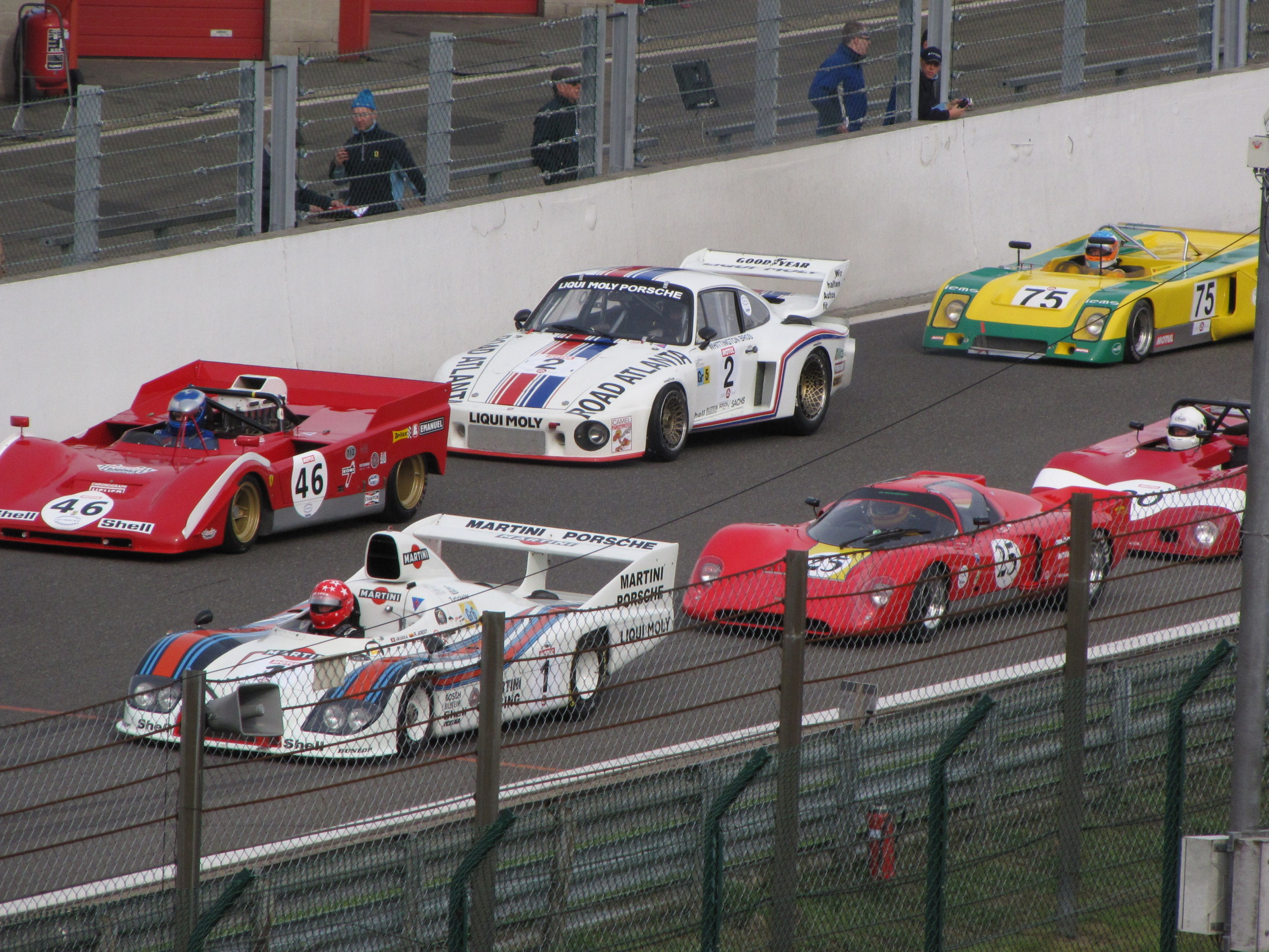 Several GT and prototyps are preparing for the first qualification of Classic Endurance Racing in Spa 2009.